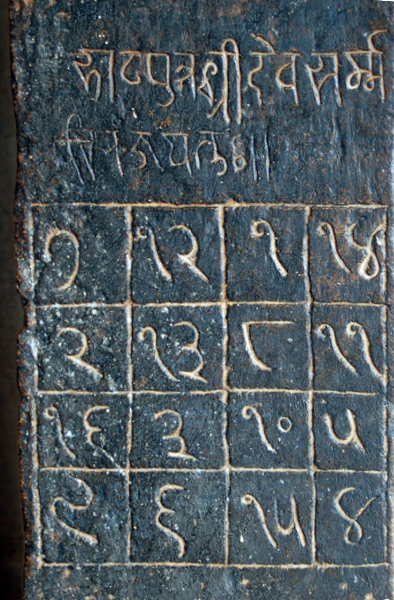 Magic Square at the Parsvanatha Temple, Khajuraho, Eastern Group